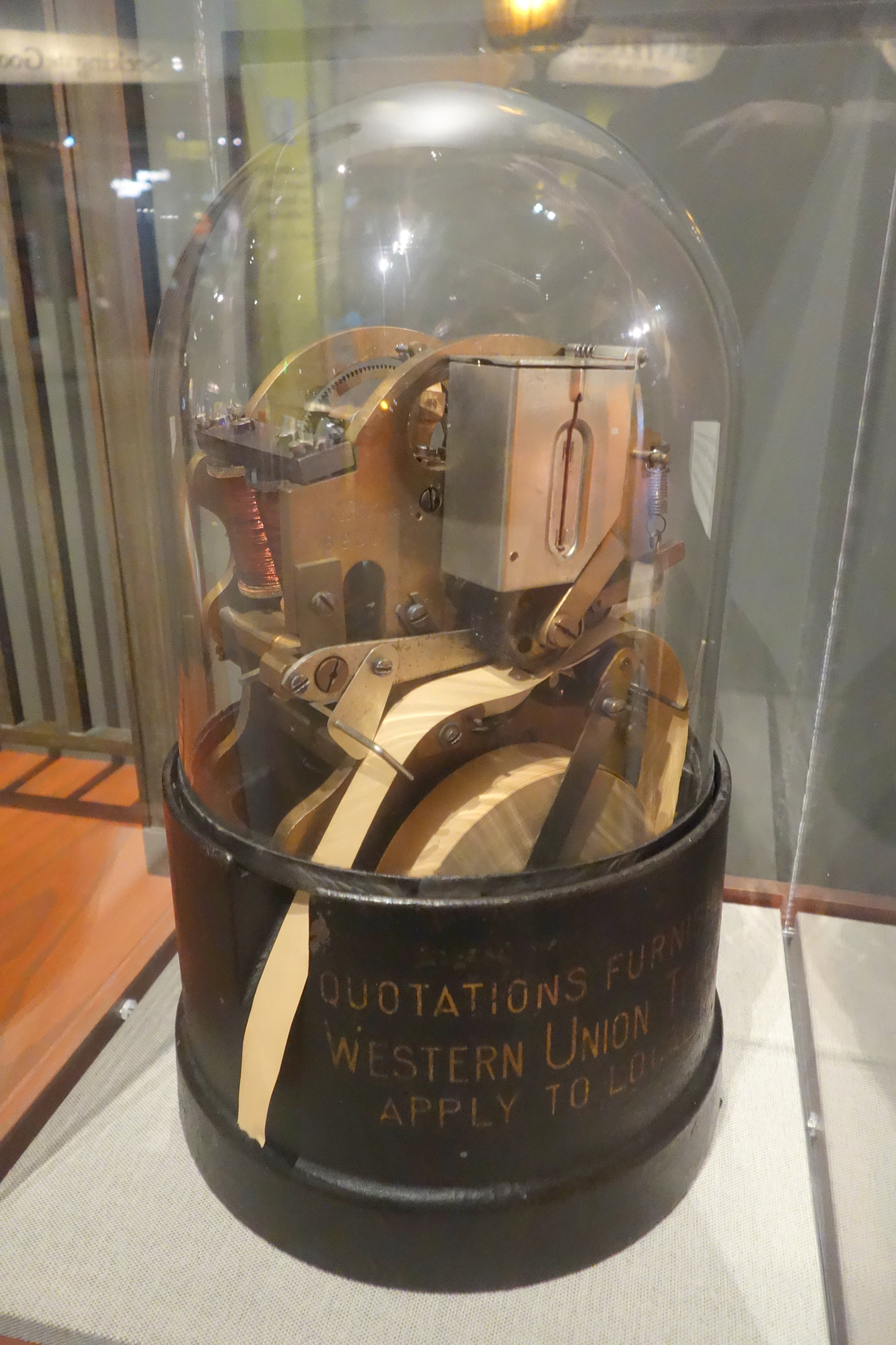 Exhibit in the Oakland Museum of California, Oakland, California, USA. This work is in the public domain because its maker died more than 70 years ago.